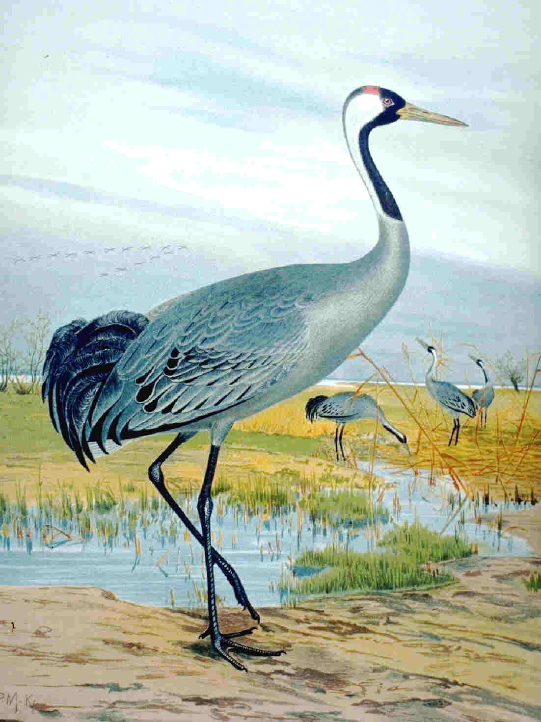 Johann Friedrich Naumann (1780-1857): Naturgeschichte der Vögel Mitteleuropas, Band VII, Tafel 9 - Gera, 1899